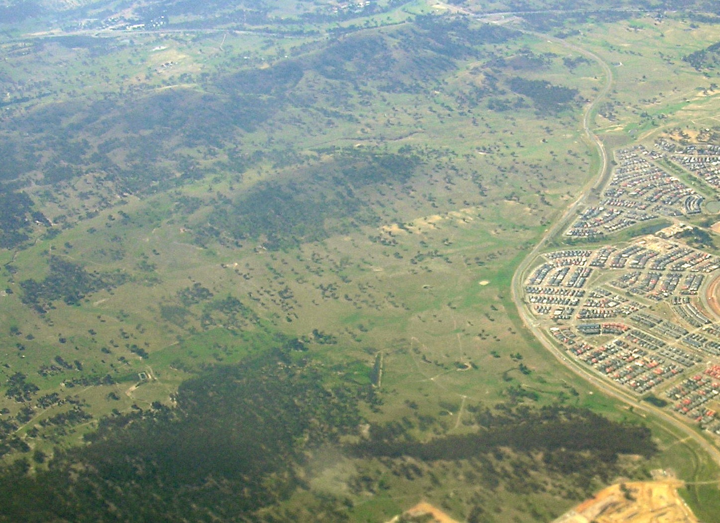 Aerial view of Throsby, Australian Capital Territory before construction, greenfield site